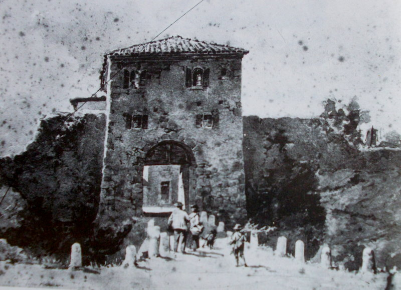 Porta Ronchi